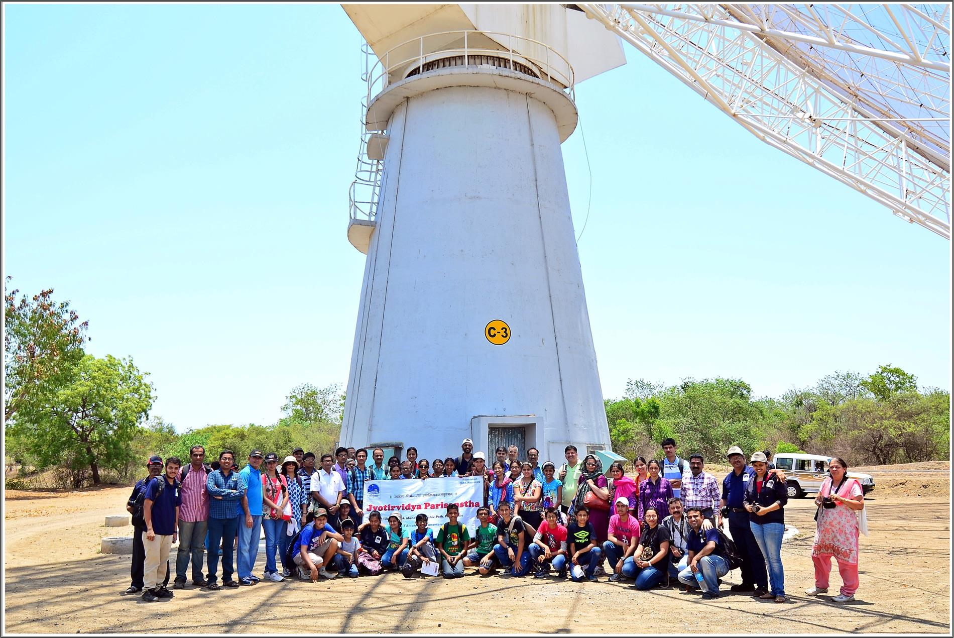 JVP organized study tour to GMRT, Pune